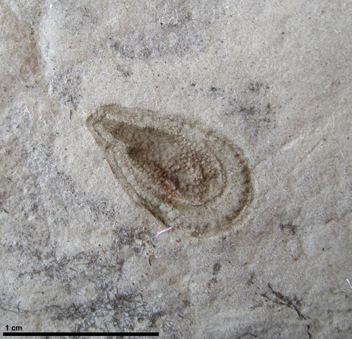 Fossil of Kimberella quadrata